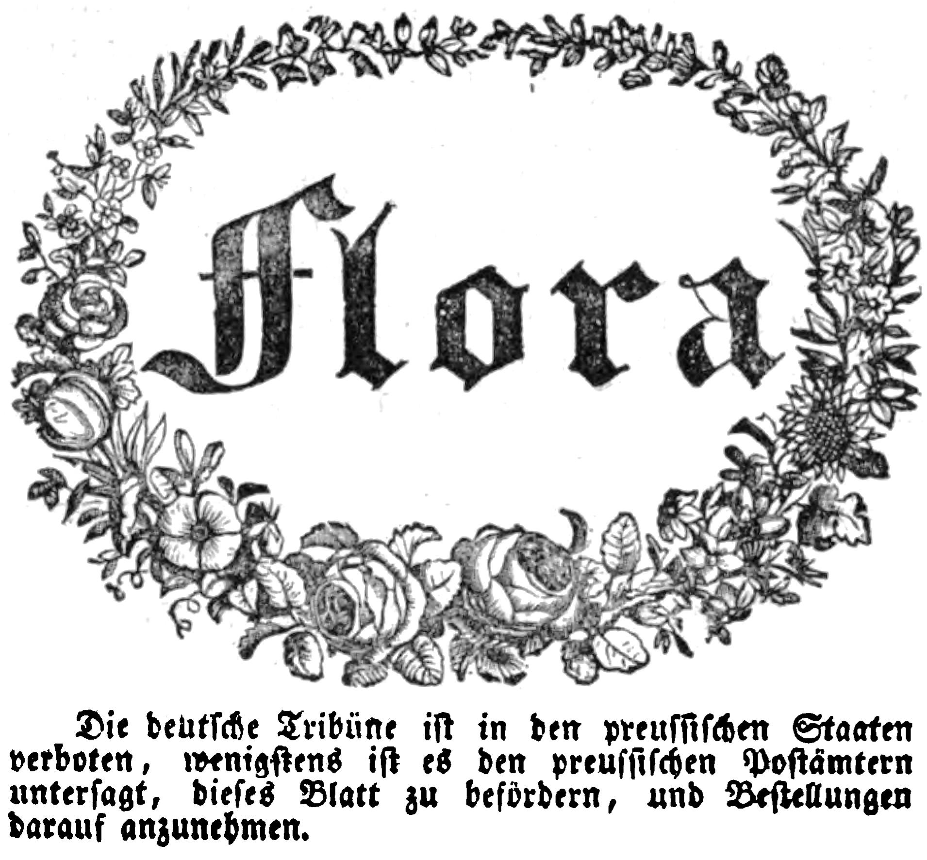 Cover-Picture of the german Newspaper: "Flora" and the news: "The Deutsche Tribüne" is forbidden in the Prussian States, at least, it is the Prussian post offices prohibited to carry this sheet and to take orders of it."